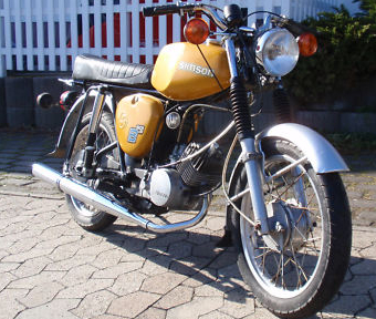 Simson S 50 from the first fabrication year, original condition